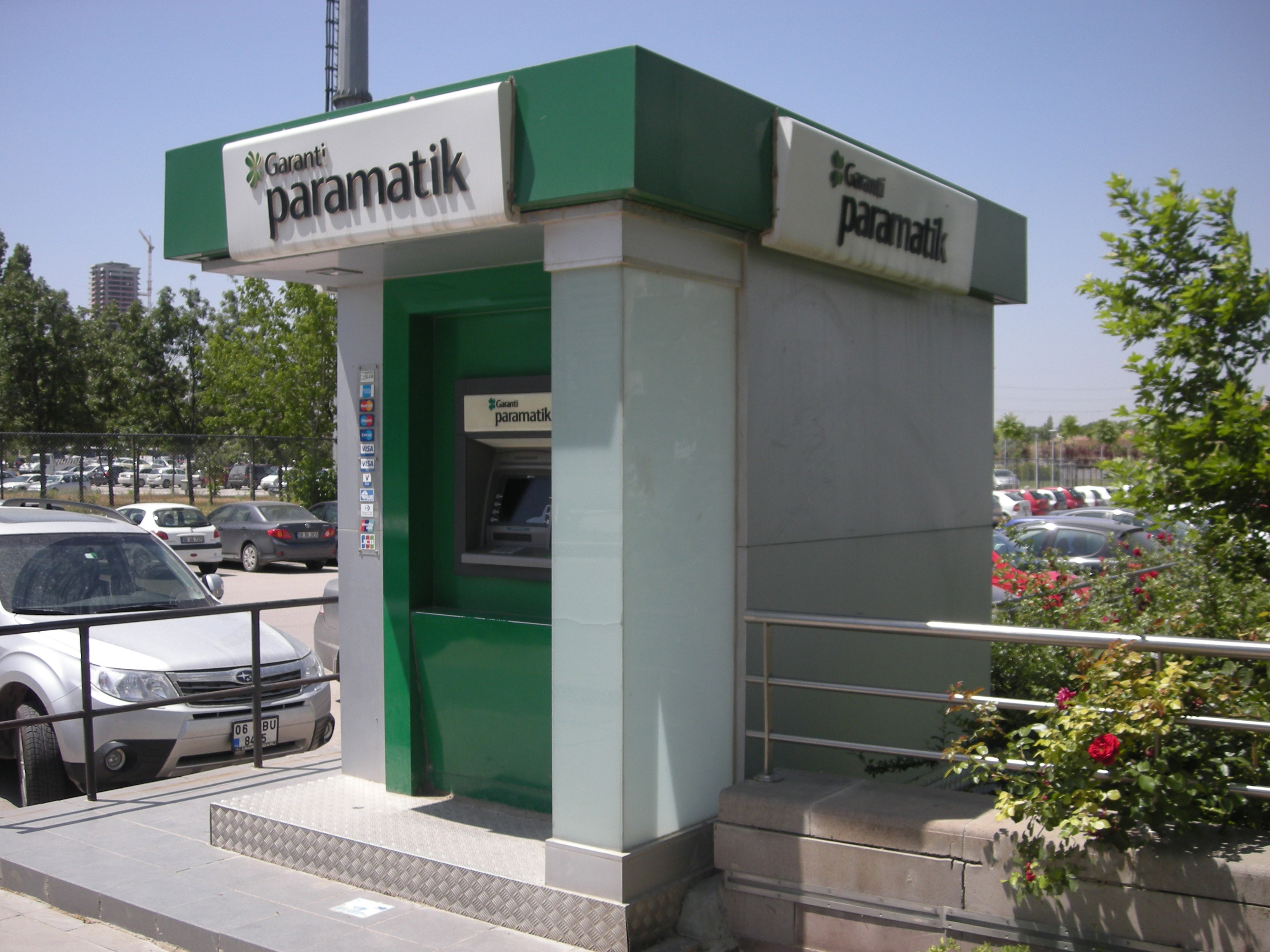 An ATM owned by Garanti Bank in Turkey.